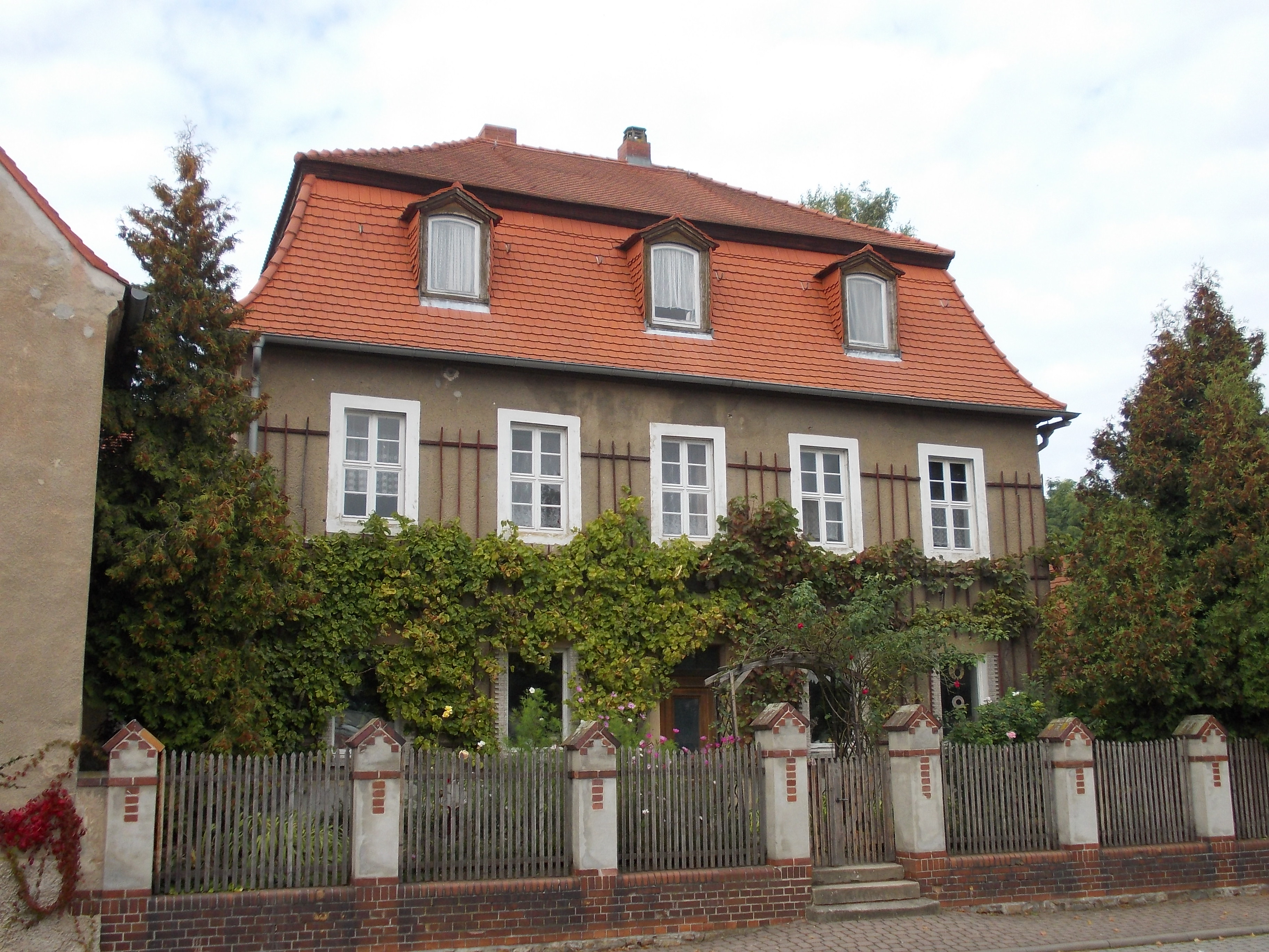 No. 11 at Dorfstrasse in Nischwitz (Thallwitz, Leipzig district, Saxony), birthplace of the art historian Cornelius Gurlitt